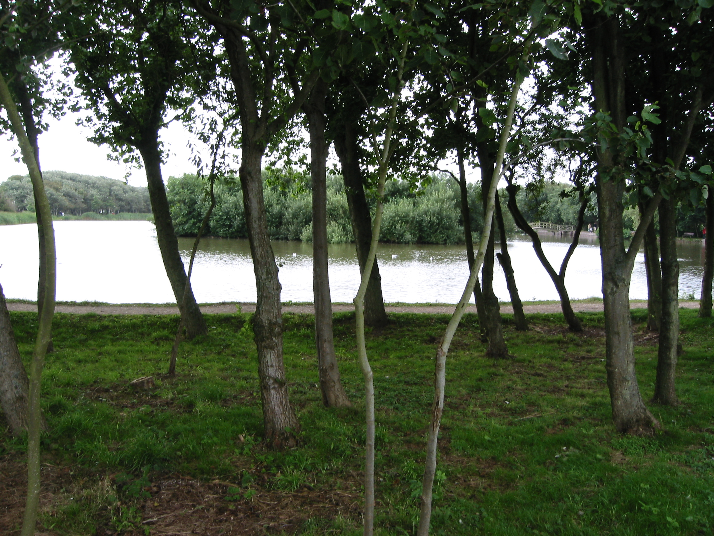 Wenningstedt town pond